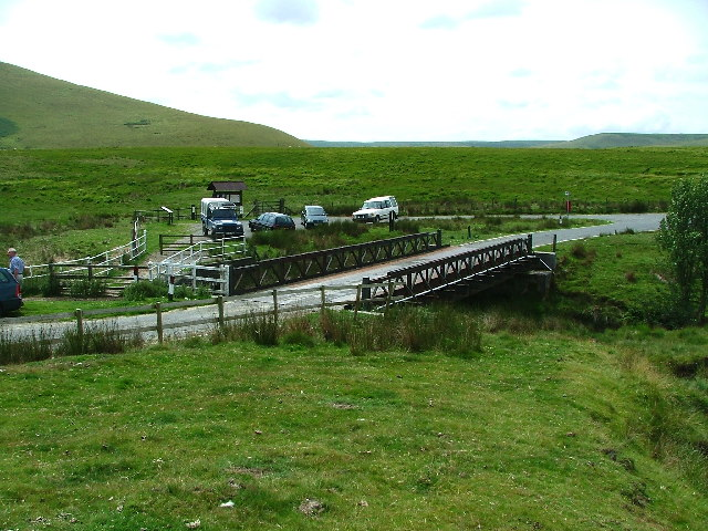 Pont ar Elan, Elan Valley. Towards the upper reaches of the Elan Valley, above the reservoirs, the road crosses the river from east to west before heading out towards Aberystwyth.